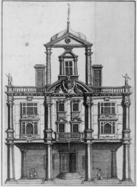 Engraving by William Dolle first published in the libretto of The Empress of Morocco, 1673, showing Dorset Garden Theatre